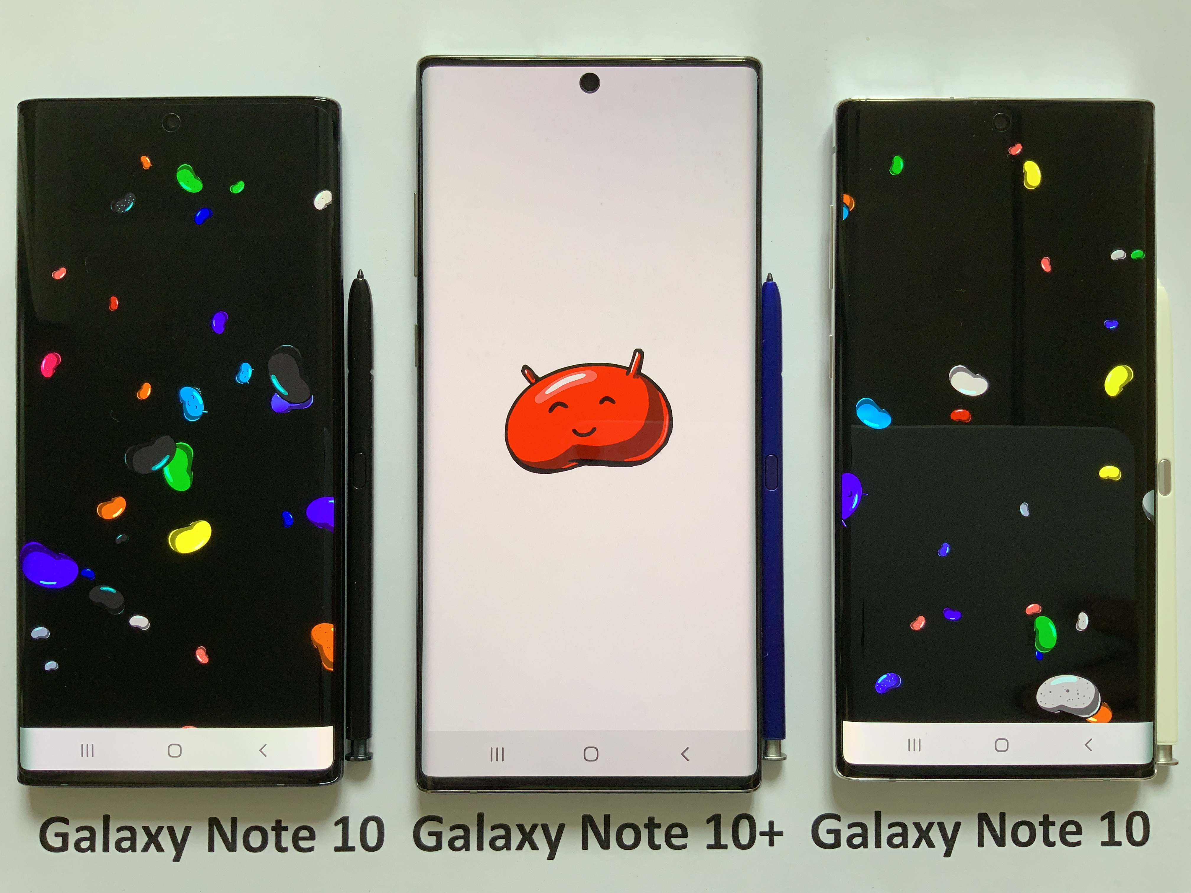 Android Jelly Bean Easter eggs shown on Samsung Galaxy Note 10